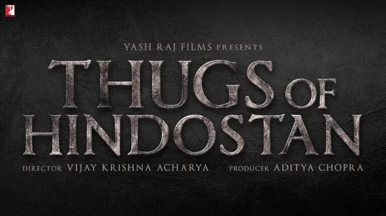 Thugs Of Hindostan Is A 2018 Hindi Film.It Stars Aamir Khan, Fatima Sana Shaikh, Amitabh Bachan And Katrina Kaif In The Lead Roles.